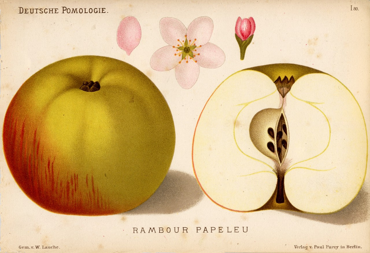 Illustration 80 from Deutsche Pomologie - Aepfel Apple cultivar shown: Rambour Papeleu